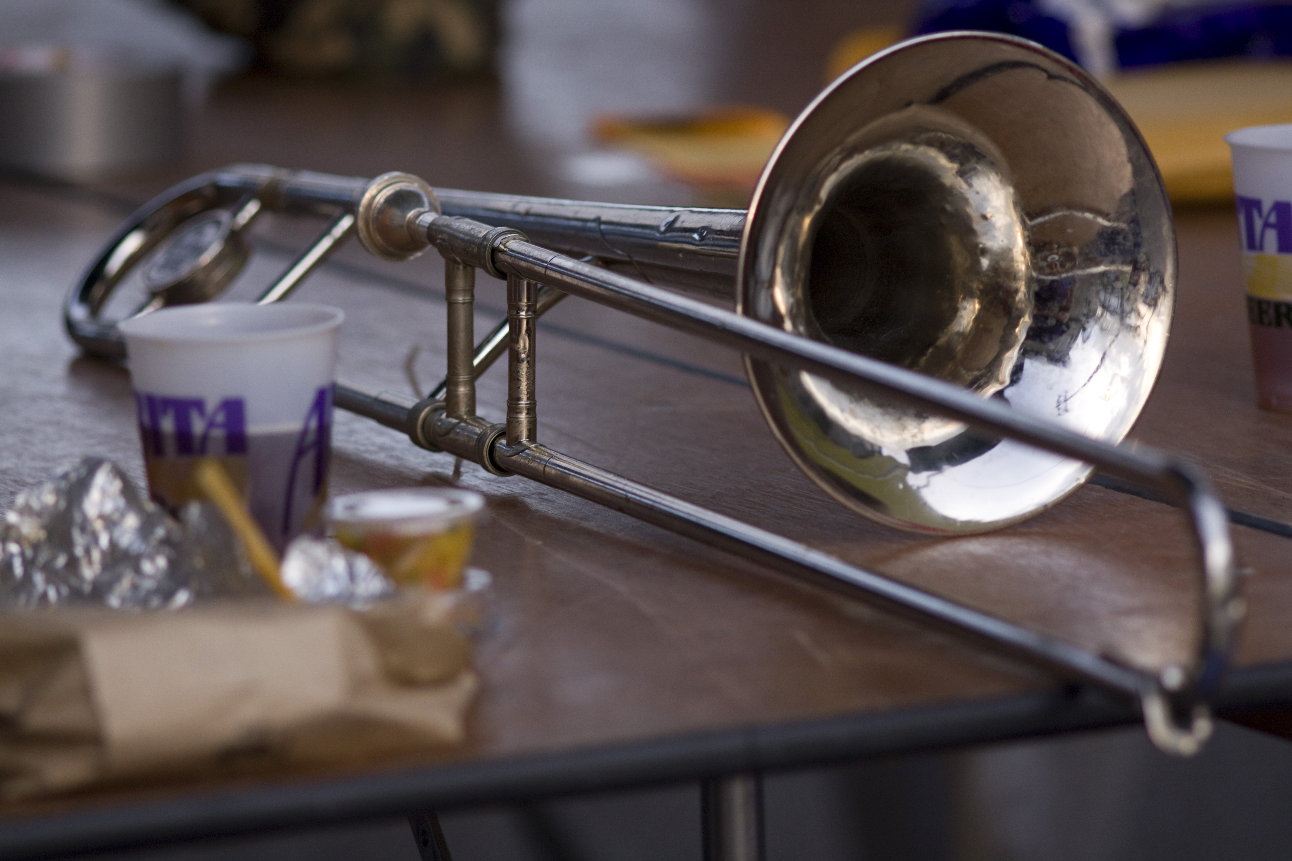 Trombone on table at Freret Street Festival, New Orleans